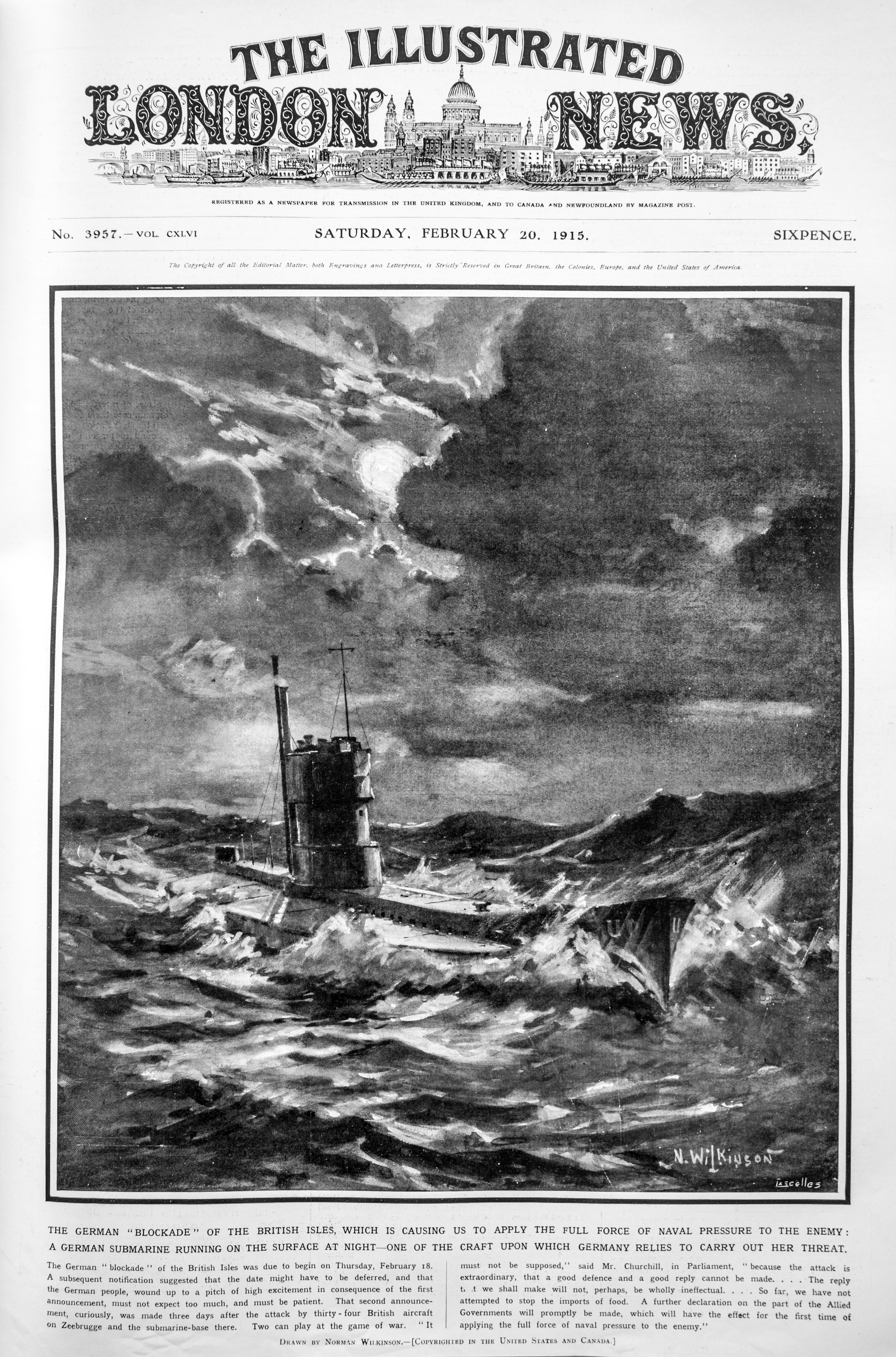 German U-boat from WWI. Engraving from The Illustrated London News, Feb 20 1915